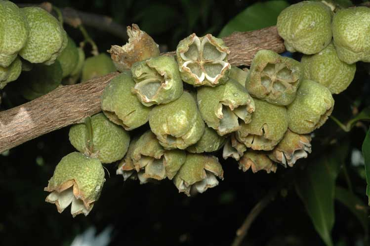 Fruit of Melicope rubra in Frank Zich's garden in Cairns, Queensland